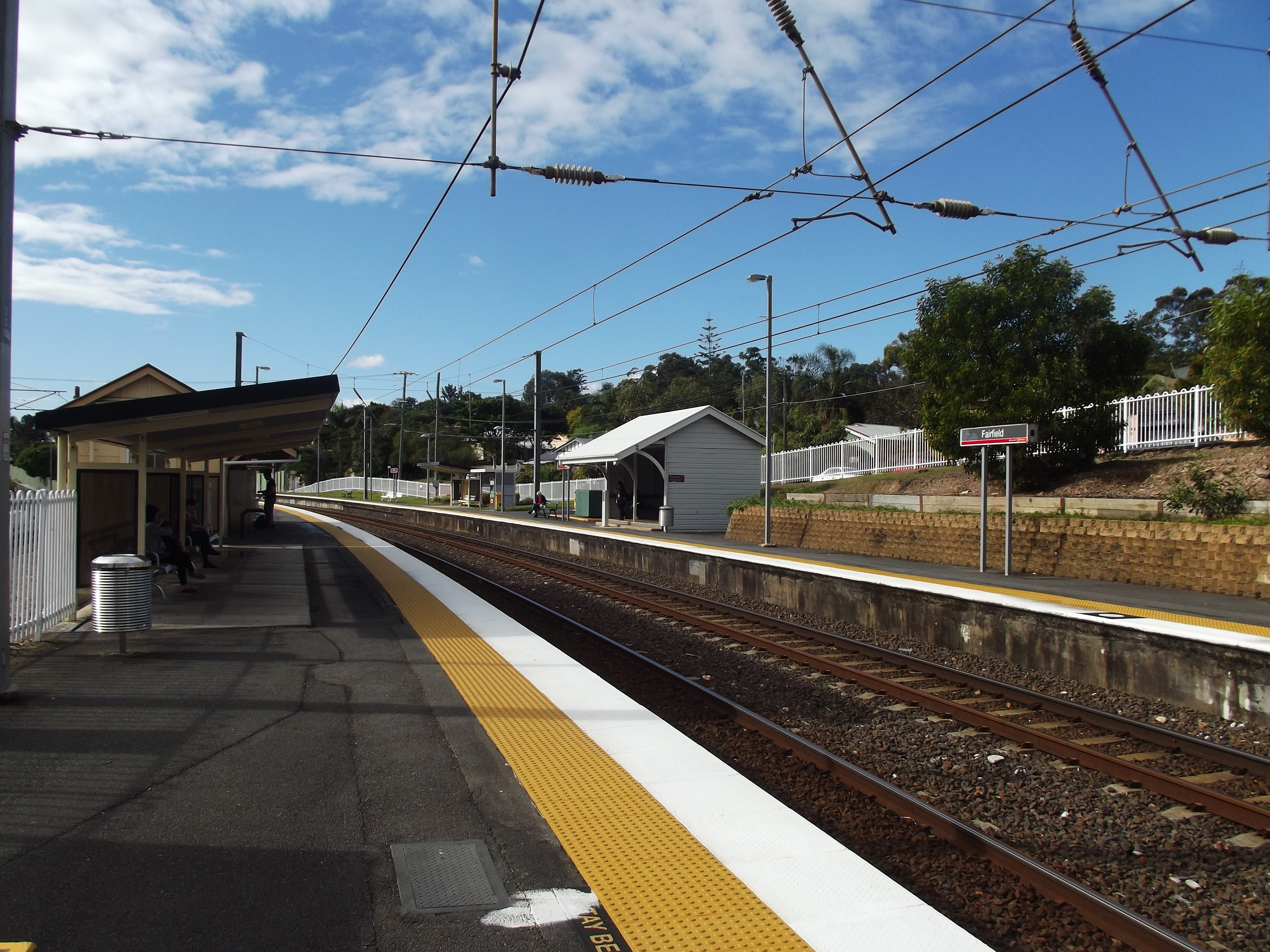 A photo of the Fairfield railway station, operated by TransLink, located in Brisbane, Australia.